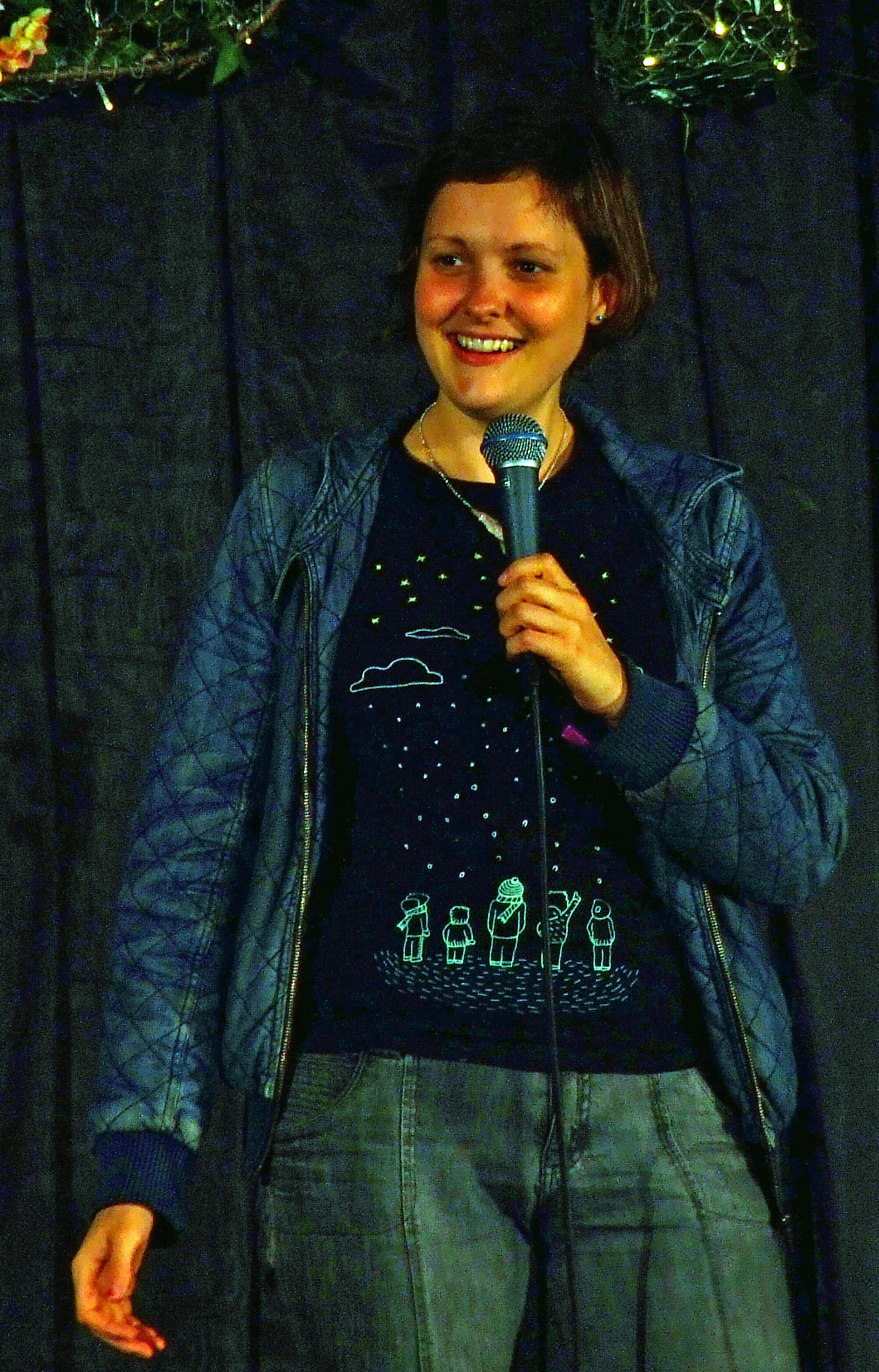 Josie Long performing at Green Man 2010.